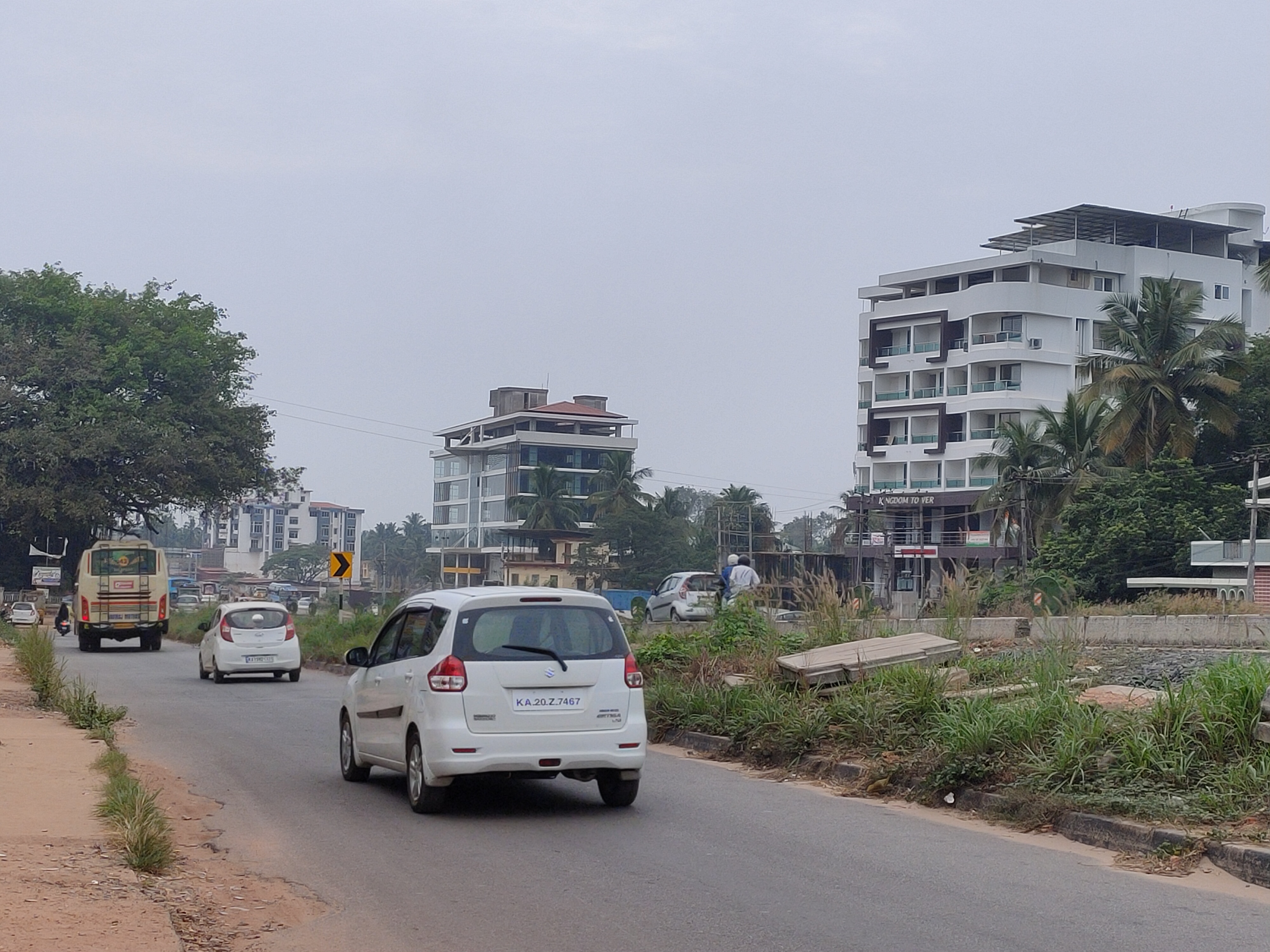 Thokottu 3